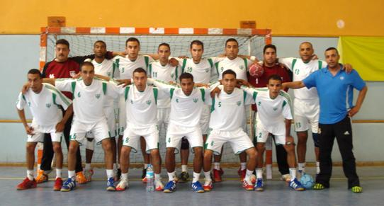 K.A.C HAND BALL